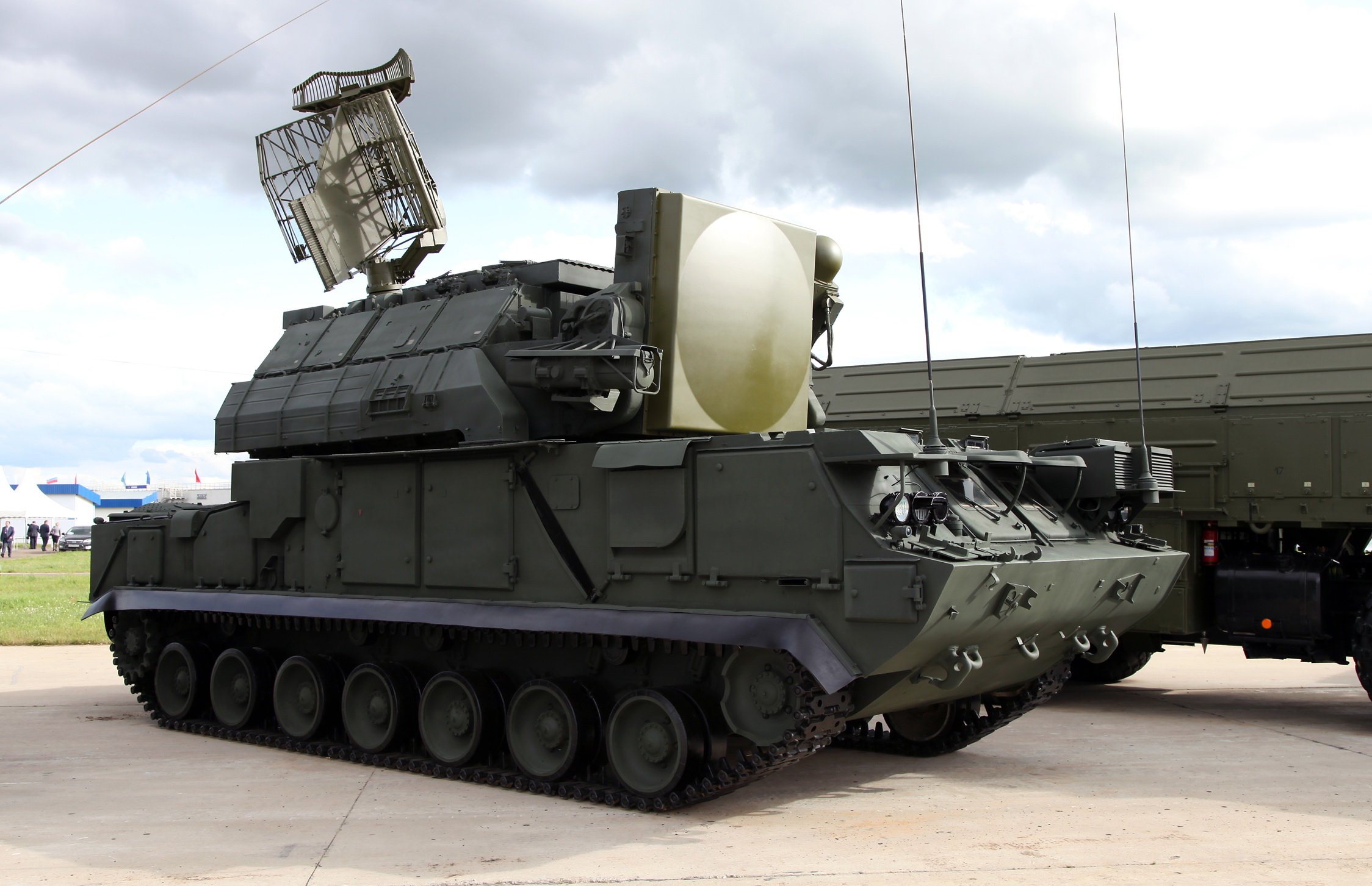 Combat vehicle 9A331 for Tor-M1 air defence system